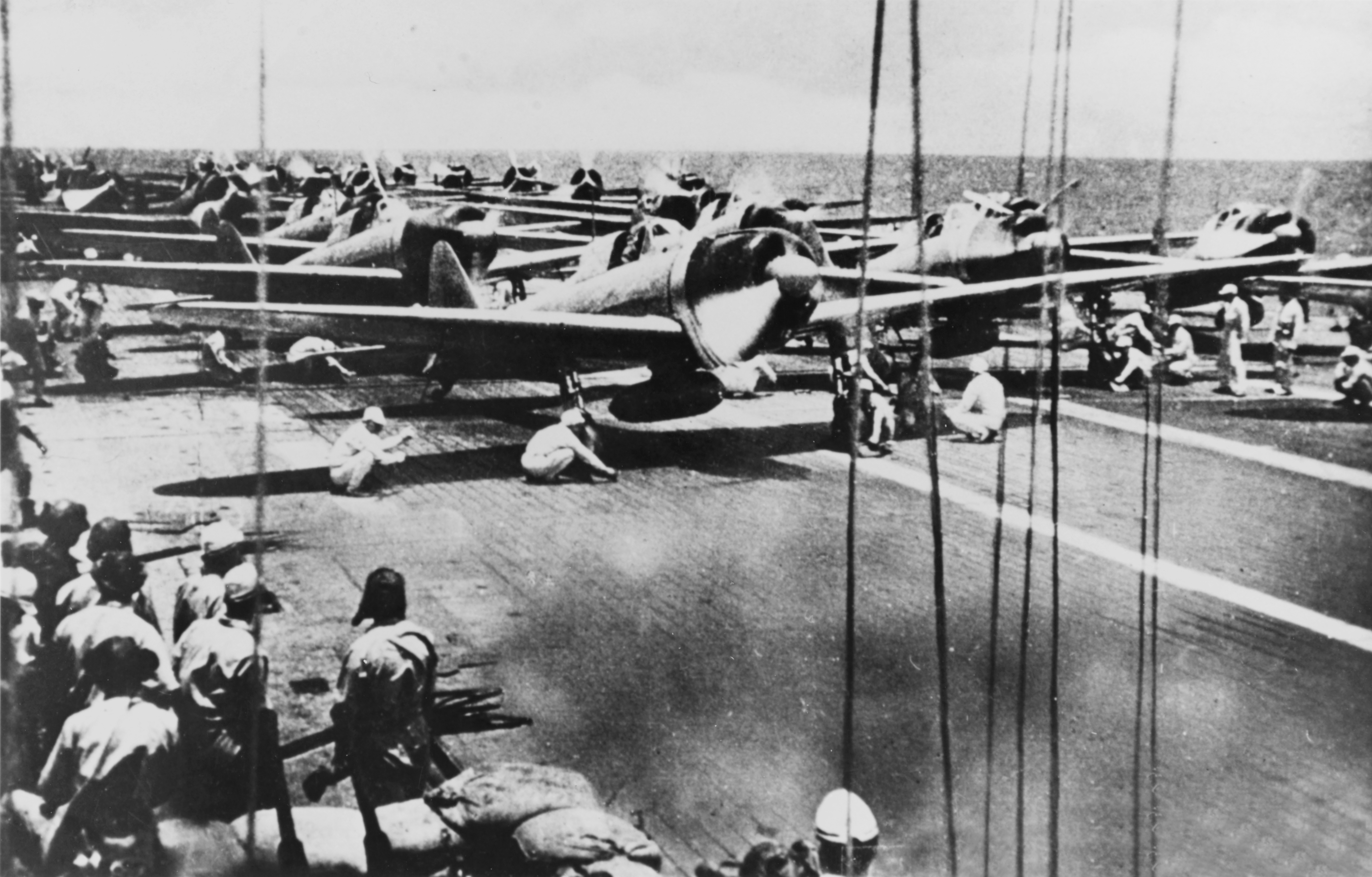 Mitsubishi Type 00 Shipboard Fighters (A6M2 Model 21. Allied codename: "Zeke") ready for takeoff from a Japanese aircraft carrier, 1942. This view was probably taken on board Shōkaku as she prepared to launch aircraft in the morning of 26 October 1942, during the Battle of the Santa Cruz Islands.